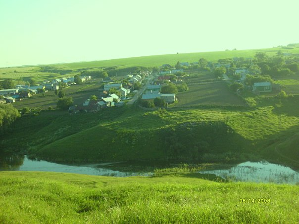 Фото описывает красоту деревни